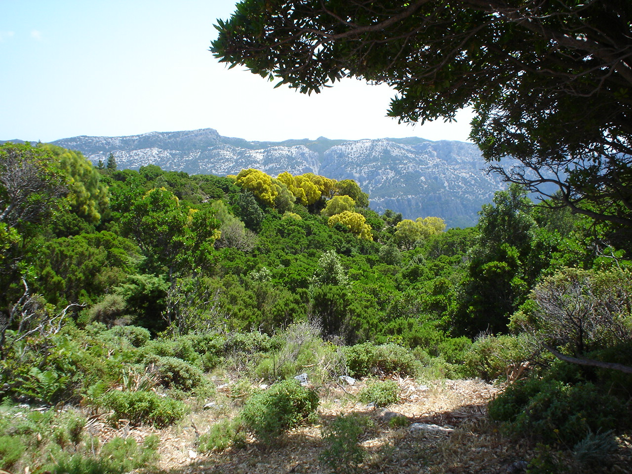 Thorkild C. Bøg-Hansen, Denmark